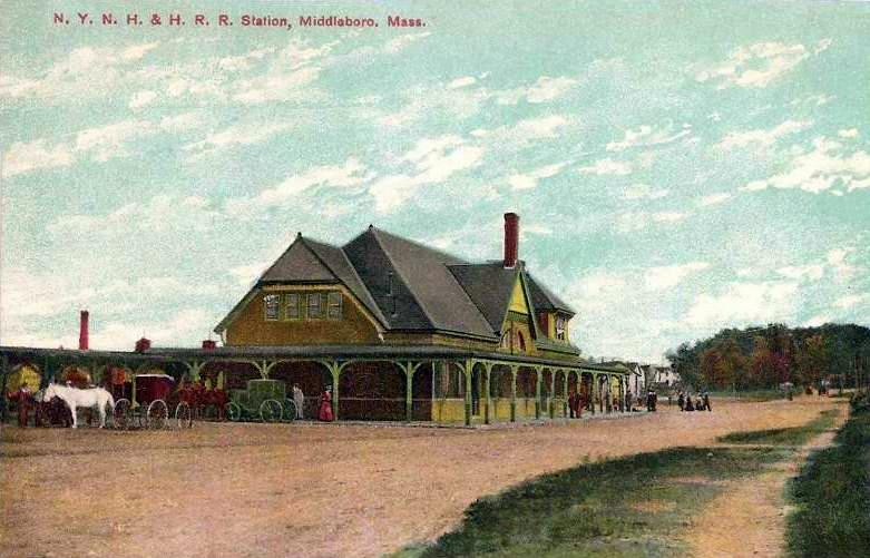 New York, New Haven & Hartford Railroad Station, Middleborough, Massachusetts